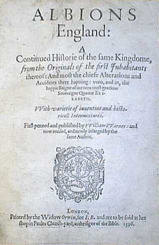 Frontispiece of Albion’s England published in 1596.